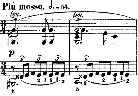 Second theme of Chopin's Nocturne Op 27, No 1